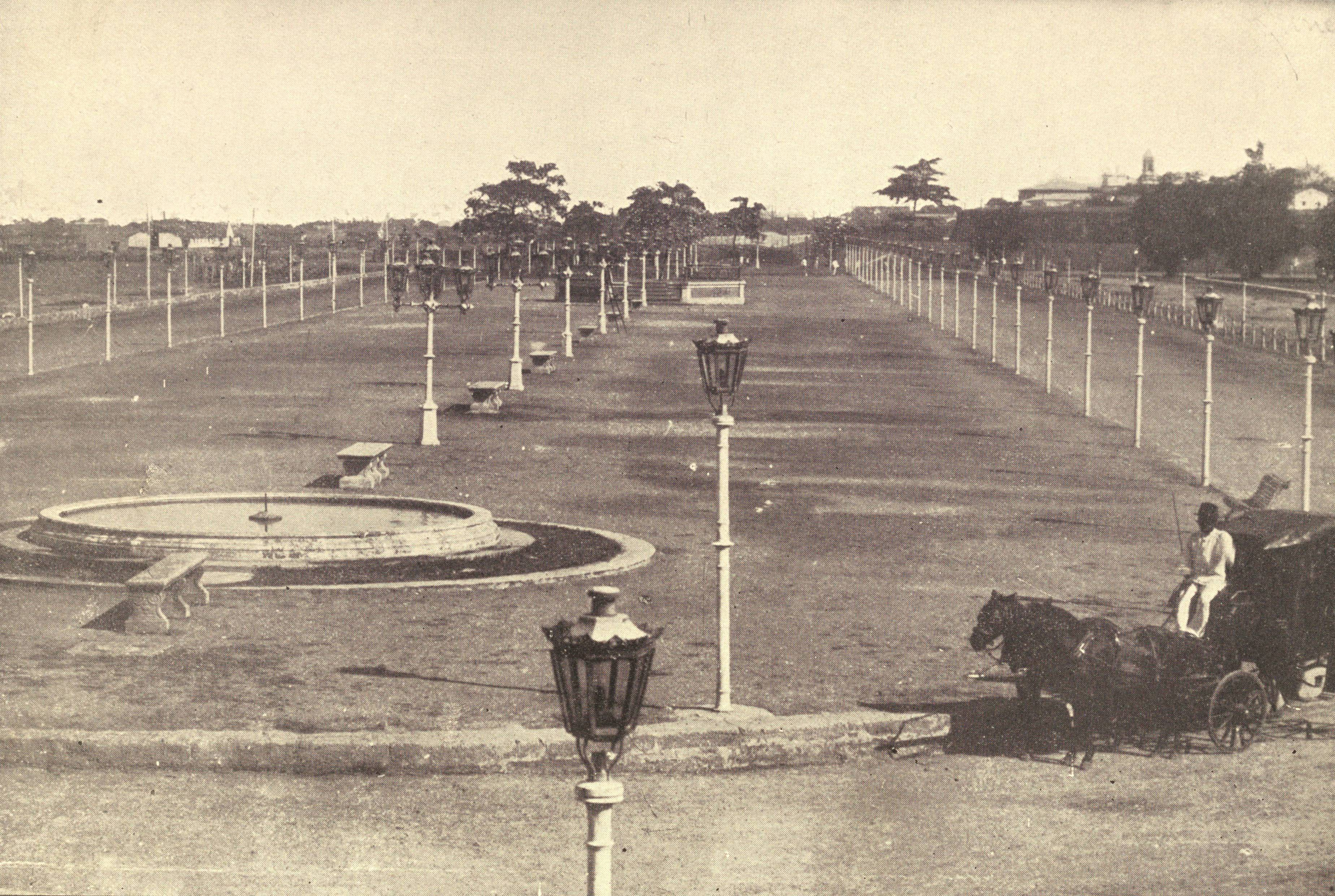 Original caption (cropped out): The beautiful Luneta, Manila's fashionable promenade and drive. Description (cropped out): This most celebrated promenade and drive in the city of Manila is by the old sea wall. The Governor and Archbishop, with their escorts and striking equipages came every afternoon to air themselves, and in the cool of every summer evening, when the fine military band of the Spanish army used to play. The whole population apprently came out to listen. This was also the place of all great processions, executions, etc.